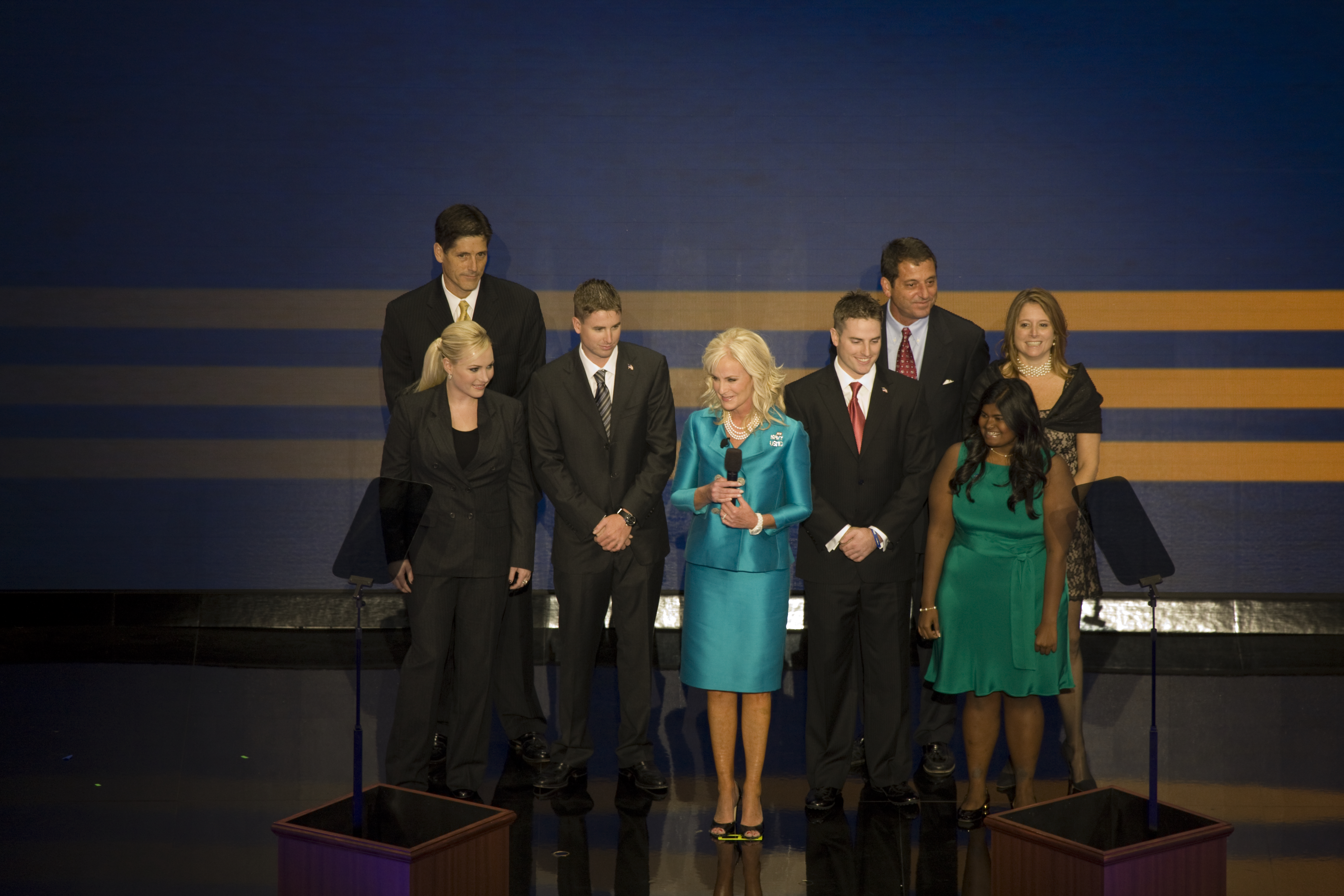 Title: Republican National Convention, September 1-4, 2008. Presidential candidate John McCain's family, wife Cindy in the middle in green outfit, St. Paul, Minnesota Physical description: 1 photograph : digital, TIFF file, color. Notes: Credit line: Photographs in the Carol M. Highsmith Archive, Library of Congress, Prints and Photographs Division.; Forms part of the Carol M. Highsmith Archive.; Gift; Carol M. Highsmith; 2009; (DLC/PP-2009:083).; Title and date provided by the photographer.